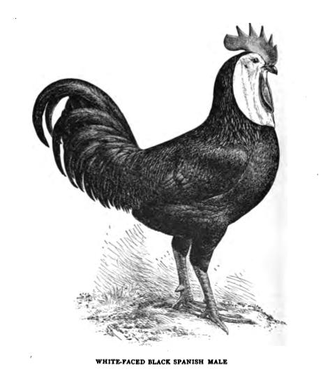 An illustration of the ideal Spanish breed rooster in the American Standard of Perfection cir. 1905